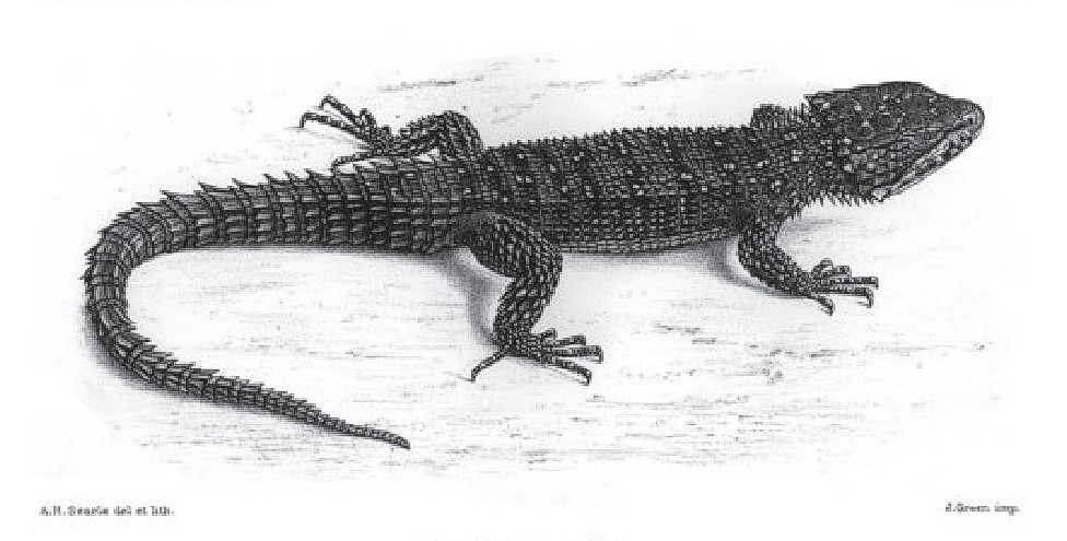 Cordylus warreni